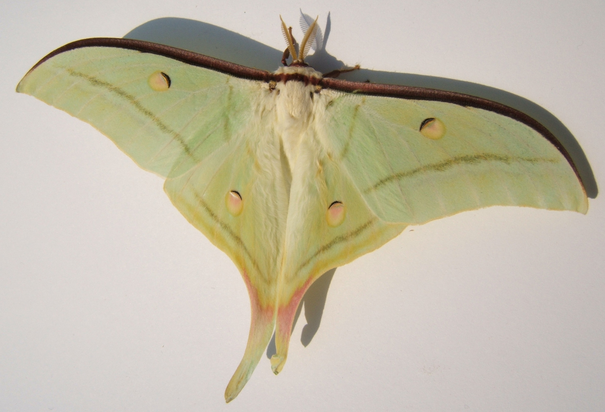 Actias selene adult male. Taken and raised by Shawn Hanrahan.